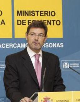 Spanish Politicians Ana Pastor and Rafael Catalá